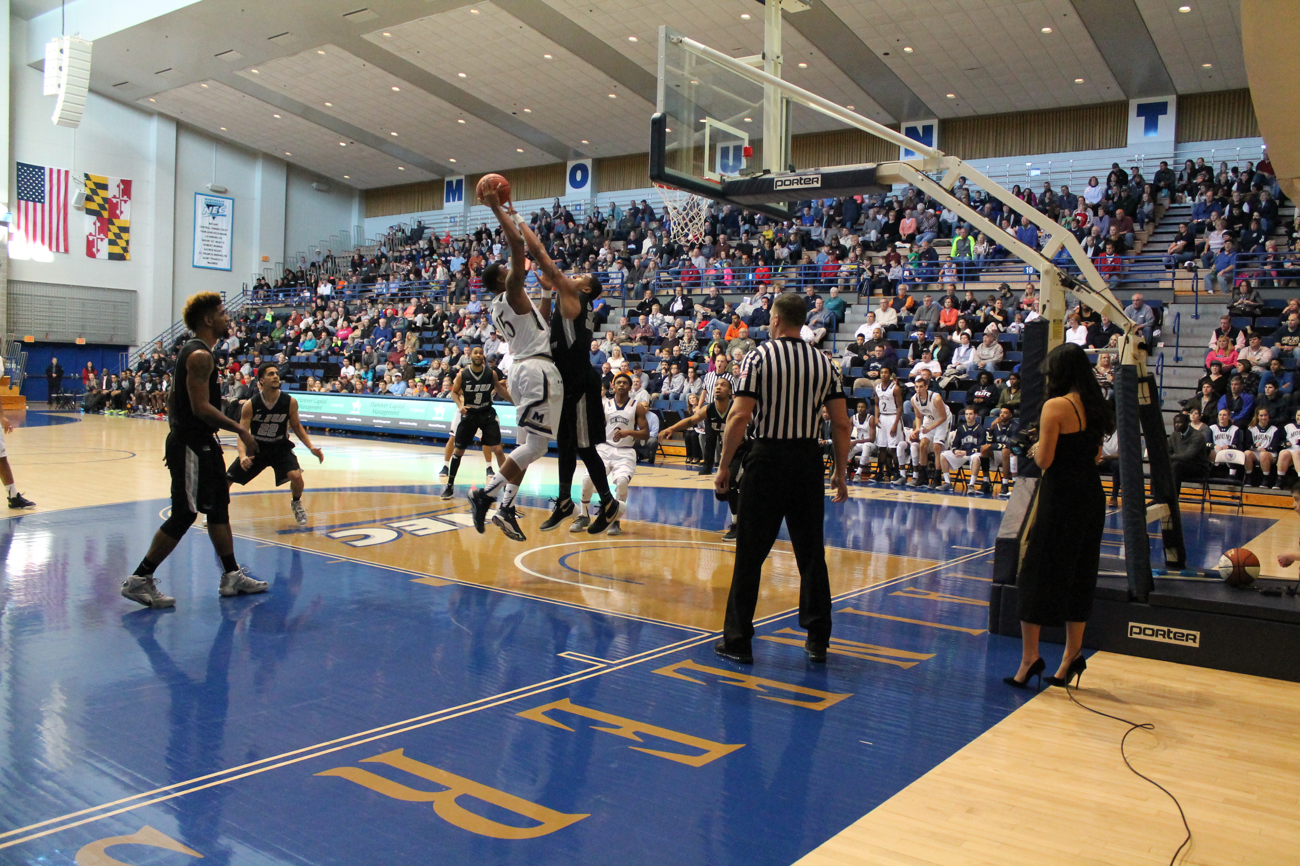 Mount St. Mary's and LIU-Brooklyn face off in a Northeast Conference men's basketball game on January 2, 2016 at Knott Arena in Emmitsburg, Maryland.